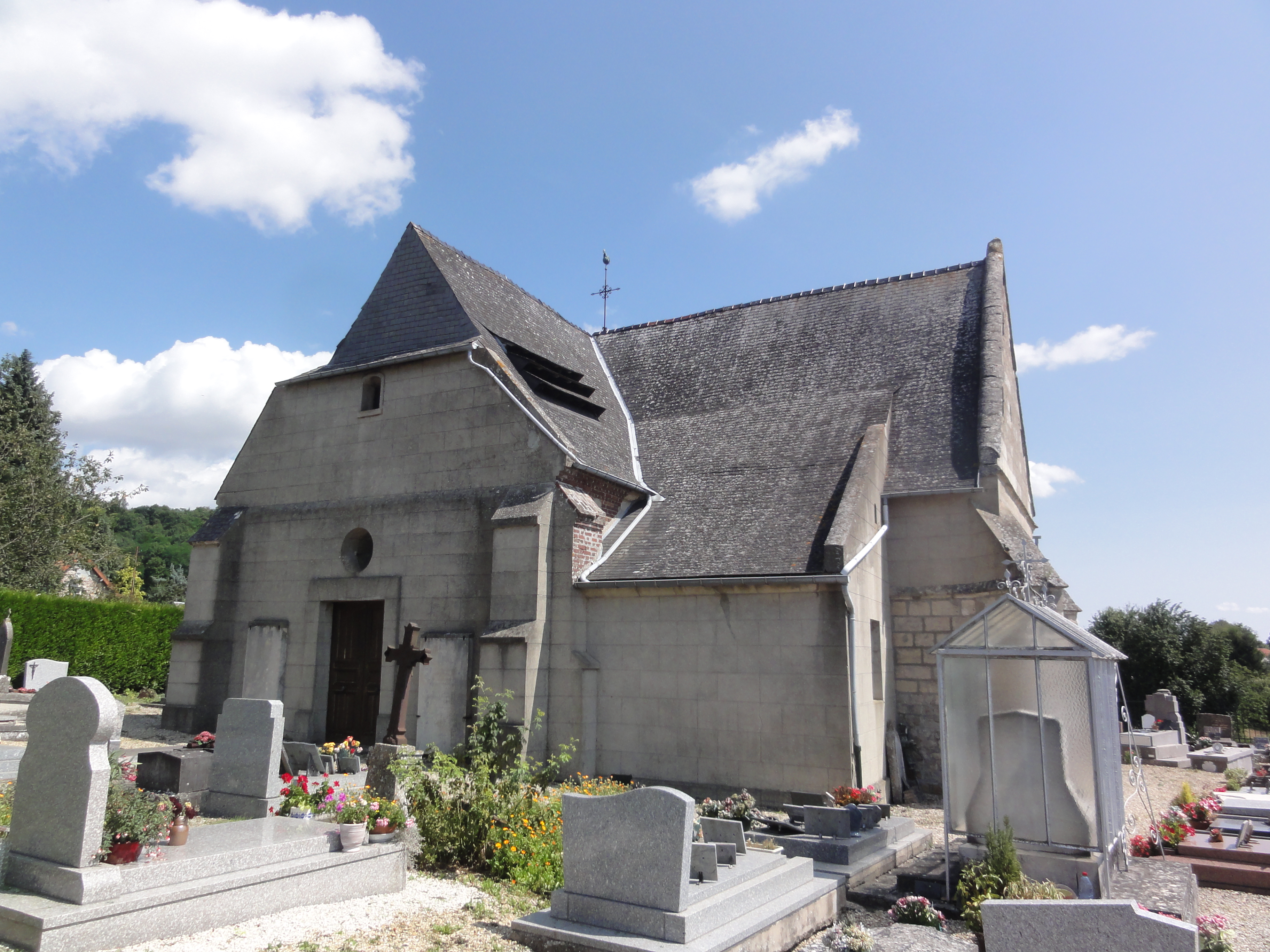 Commenchon (Aisne) église Notre-Dame